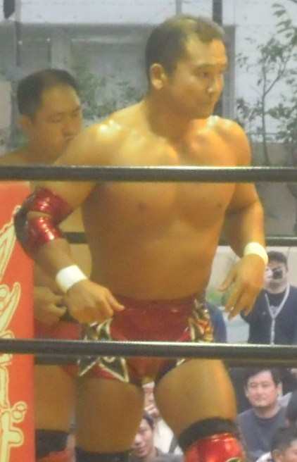 Japanese professional wrestler, Masato Tanaka. Oct 2 2011 ZERO1 Yasukuni Shrine.